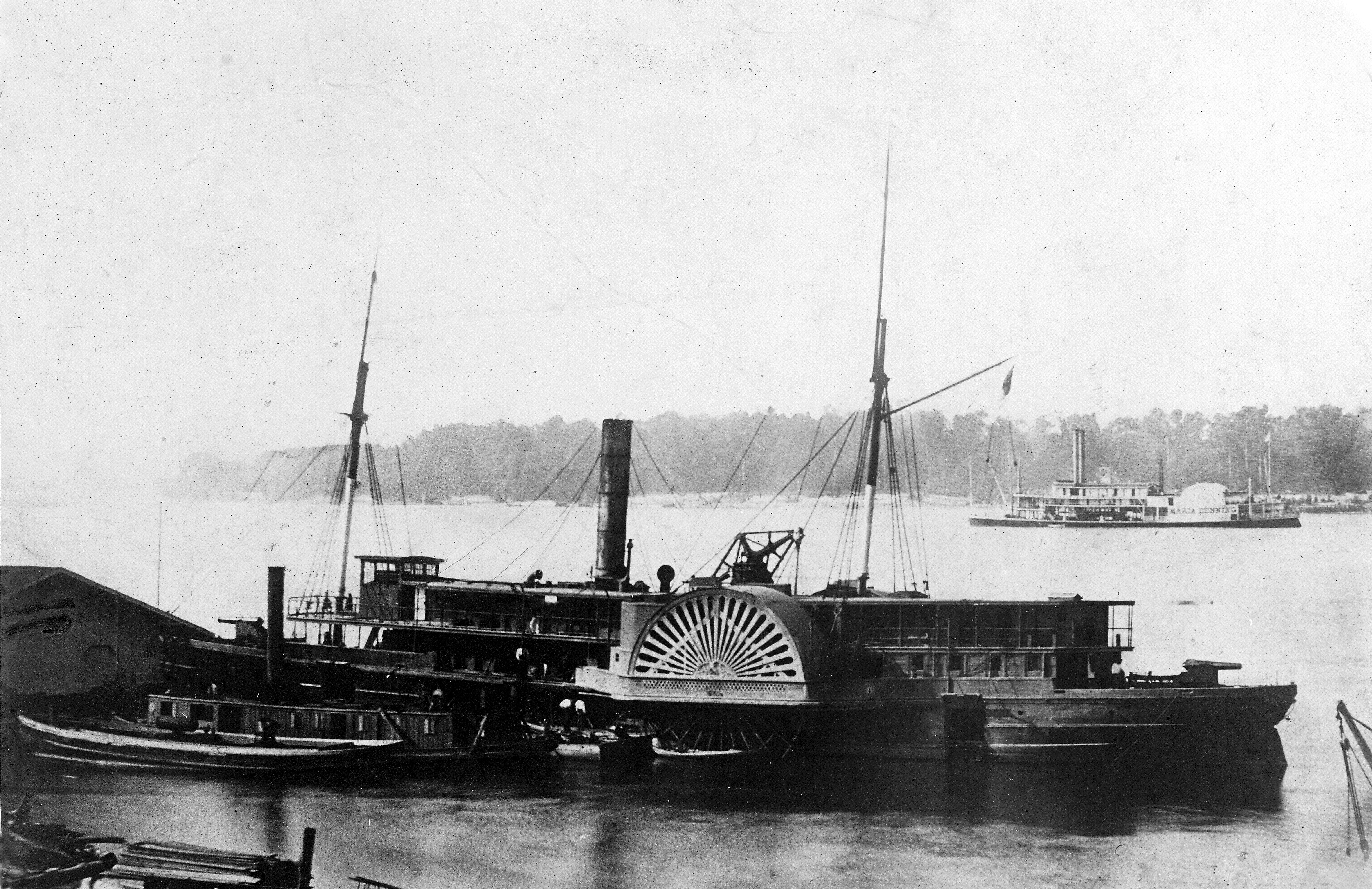 From U.S. Navy public domain Photo #: NH 46642 USS General Bragg (1862-1865) Probably photographed at Cairo or Mound City, Illinois, circa 1862-63. Two small tugs are fitting out at left. USS Maria Denning (1861-62) is offshore at right. U.S. Naval Historical Center Photograph.